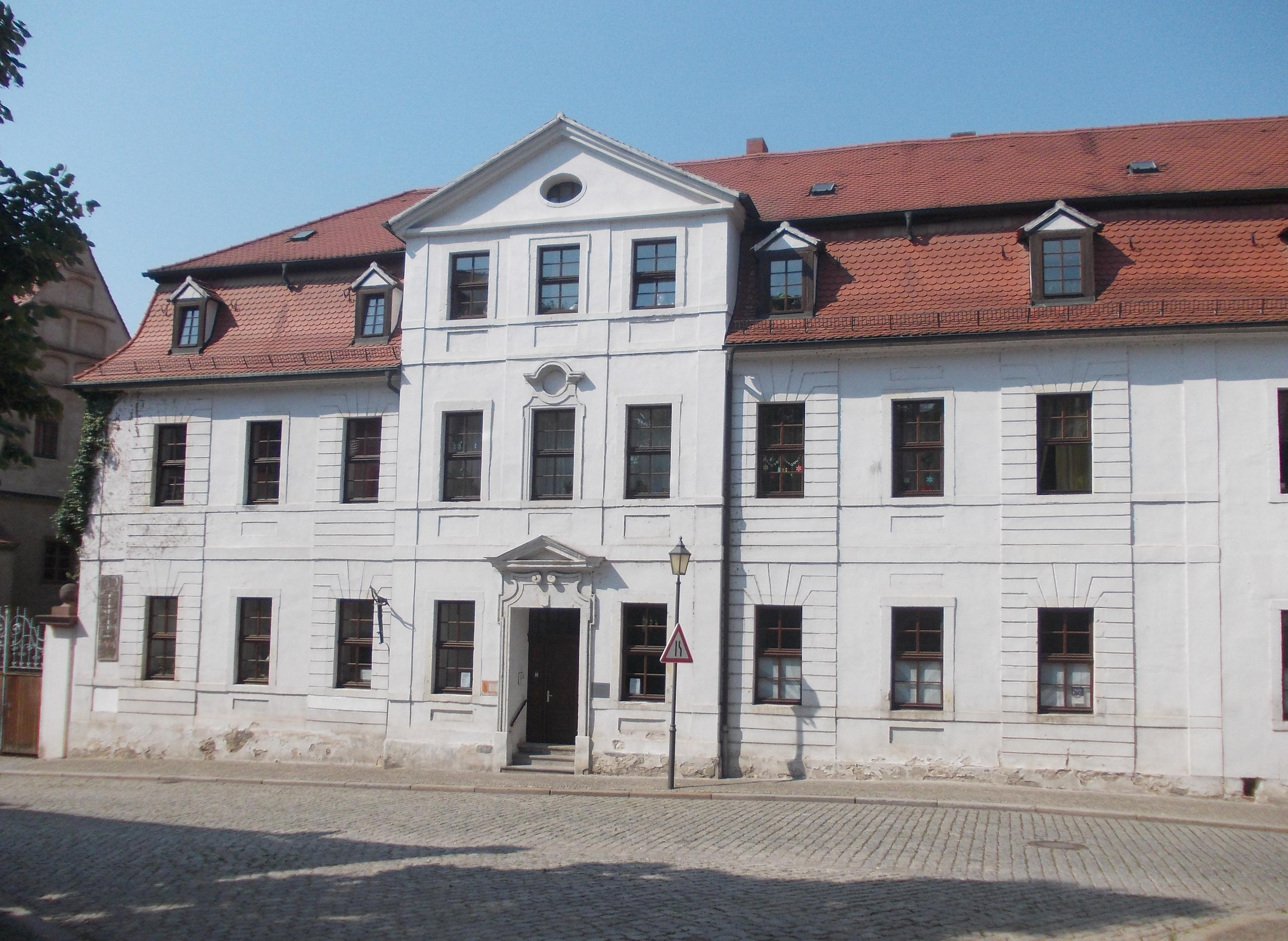 No. 10, Domstrasse in Merseburg (district: Saalekreis, Saxony-Anhalt)